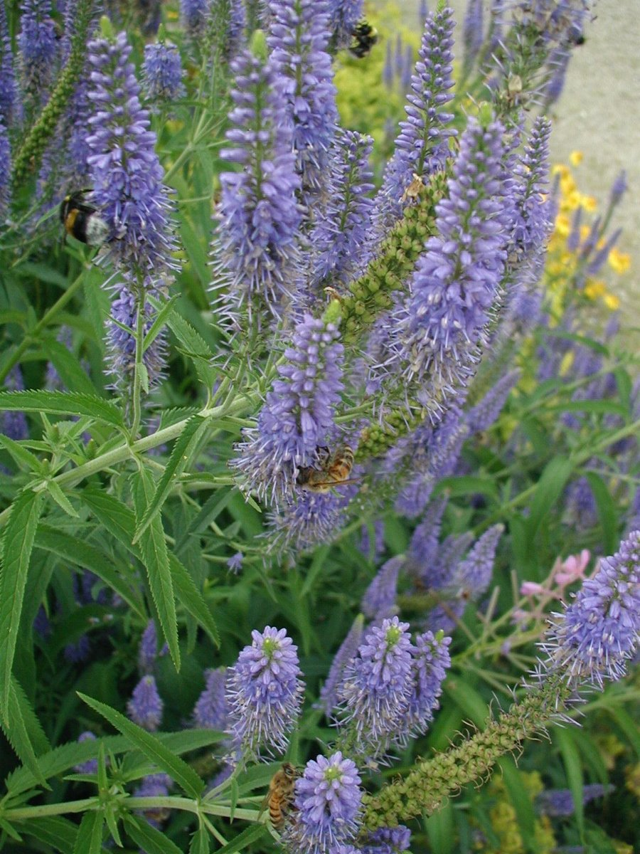 Pseudolysimachion longifolium (syn.: Veronica longifolia): Flower spikes